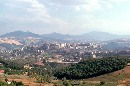 view